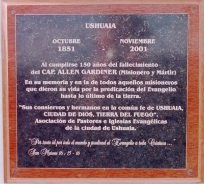 Memorial tablet for Allen Francis Gardiner in Ushuaia (Argentina).